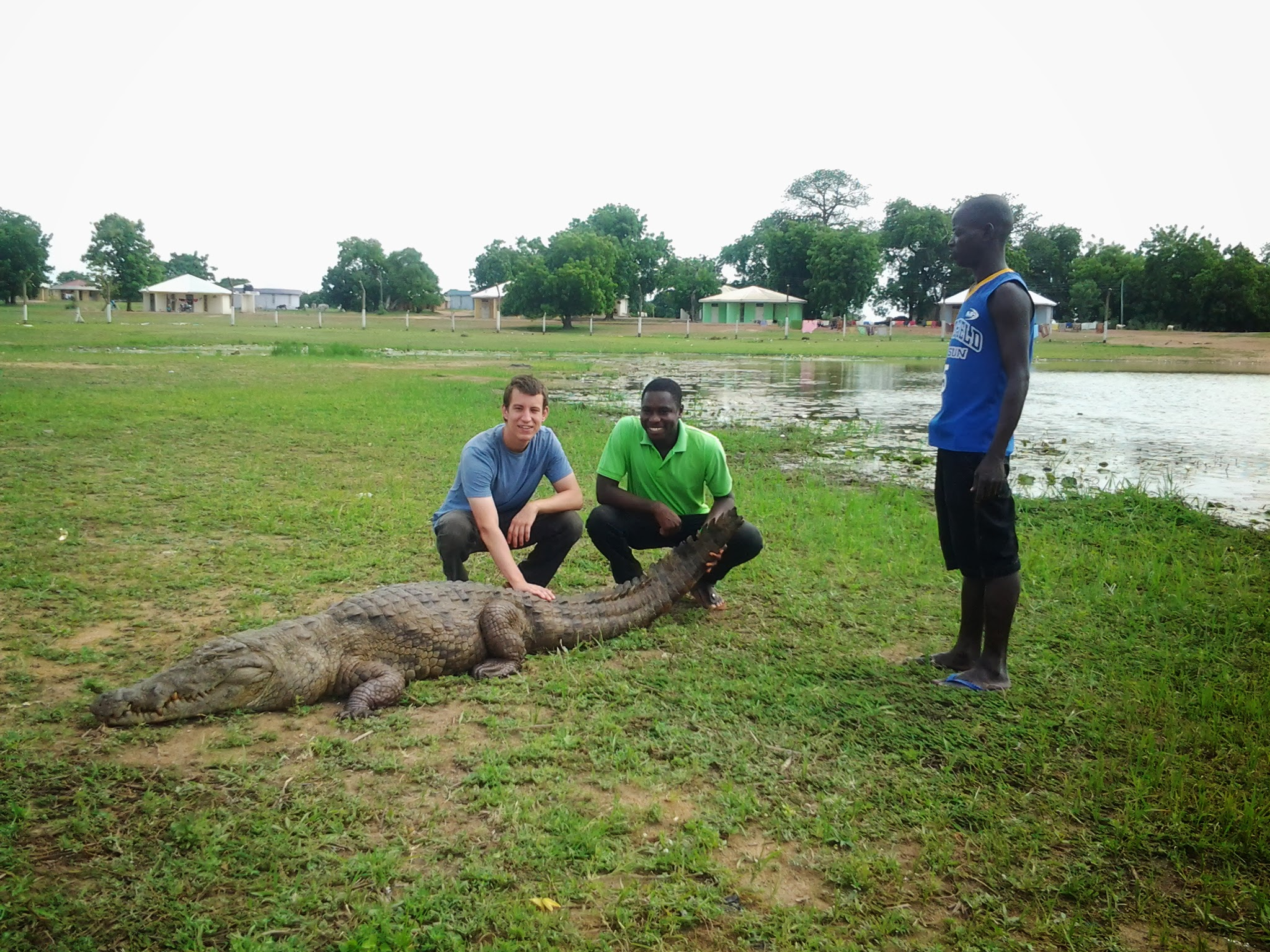 you can actually touch or sit on the crocodiles at the Paga crocodile pond.